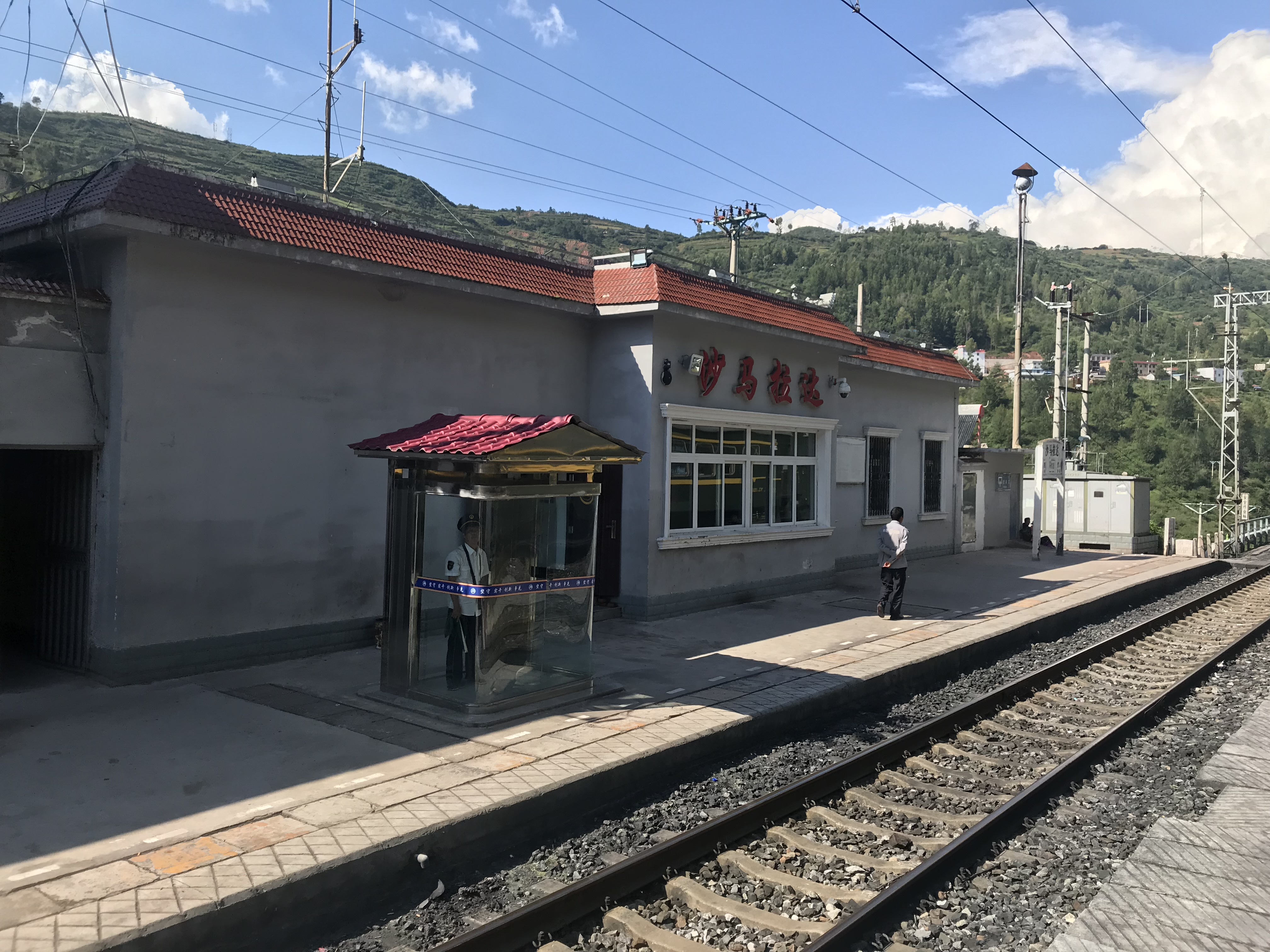 201908 Station Building of Shamalada